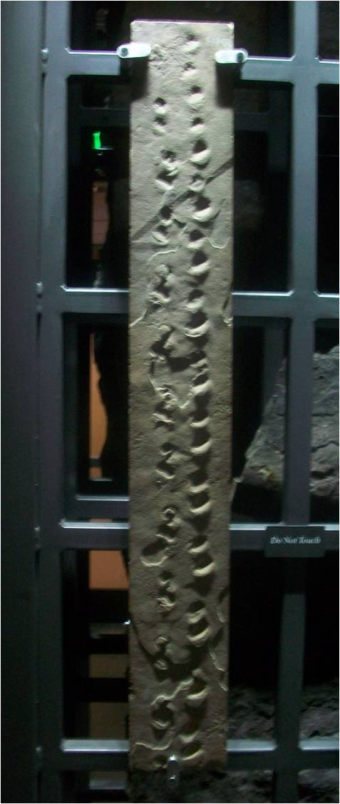 Trackway of the ichnospecies Chelichnus duncani at the Amherst Museum of Natural History. There are several examples of Anomeopus gracillimus at the Amherst Museum. The fossil depicted in this picture is not Anomoepus, but one of the few examples of Permian trace fossils belonging to the ichnospecies Chelichnus duncani in the Amherst College Museum of Natural History collection. It was collected from the Coconino Sandstone of the American southwest.